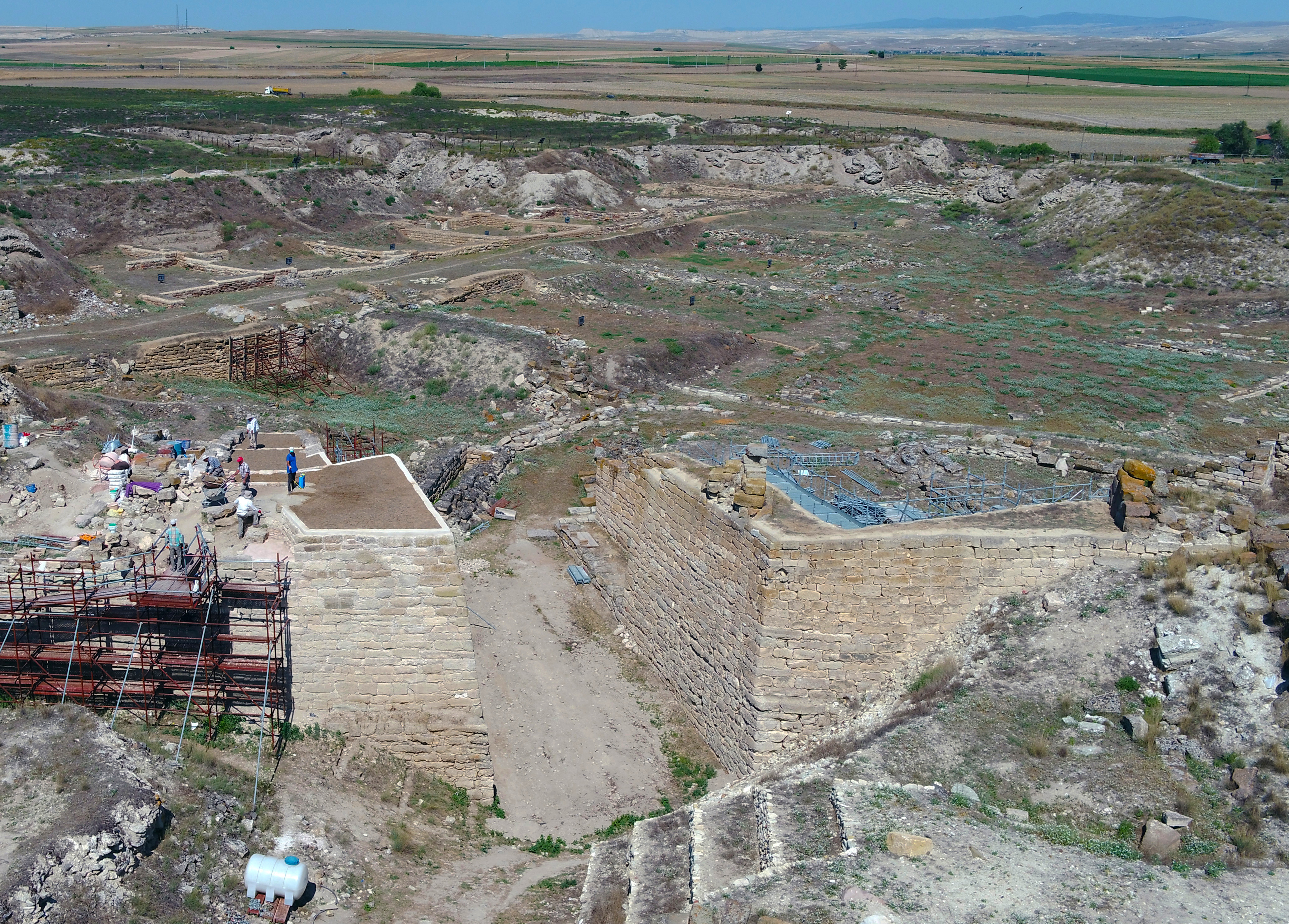 Early Phrgyian East Gate of Gordion